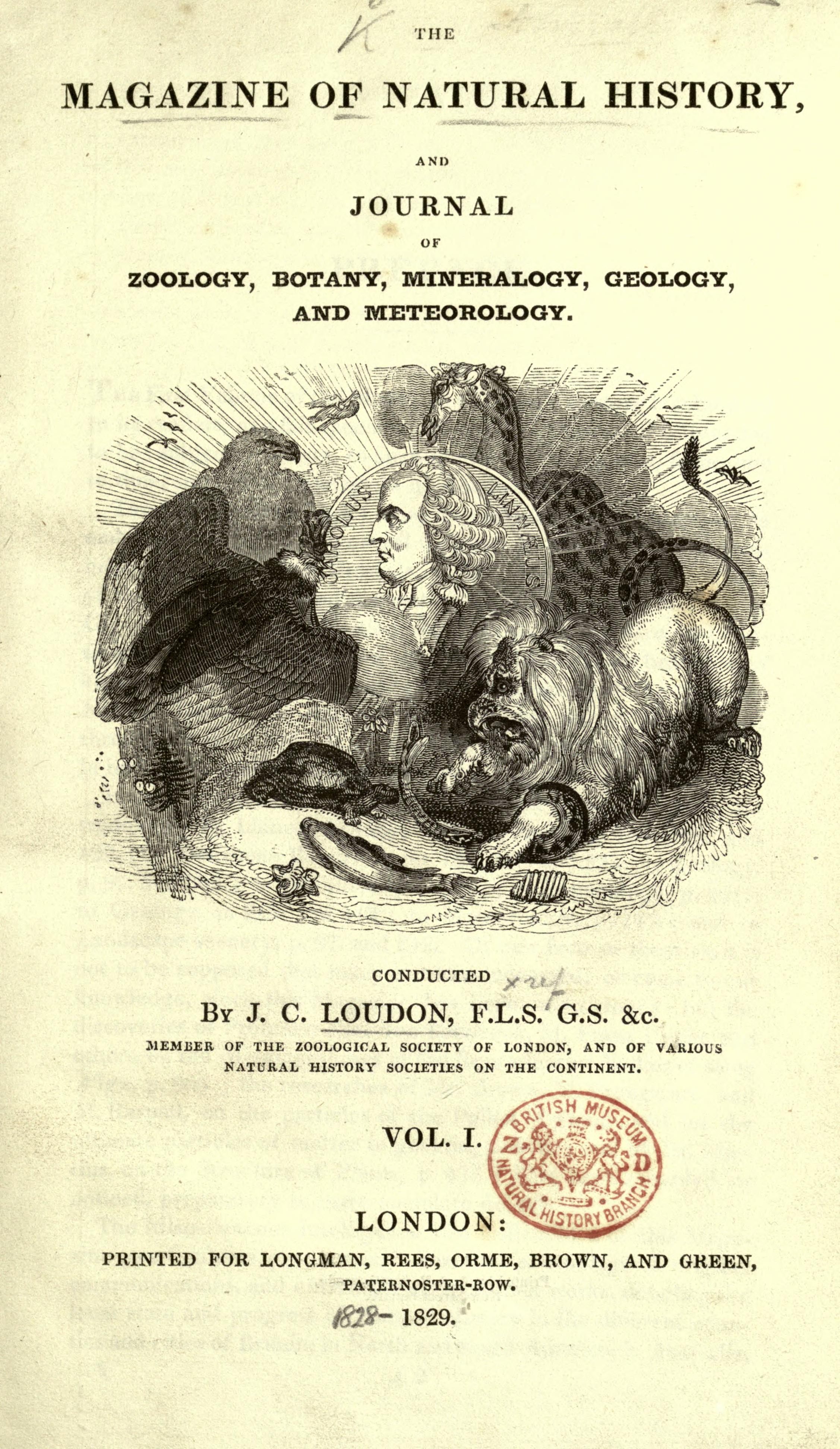 Magazine of natural history and journal of zoology, botany, mineralogy, geology and meteorology.